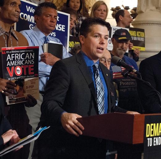 Speaking at a 2013 Press conference to push for legislation to address gun violence in Pennsylvania.